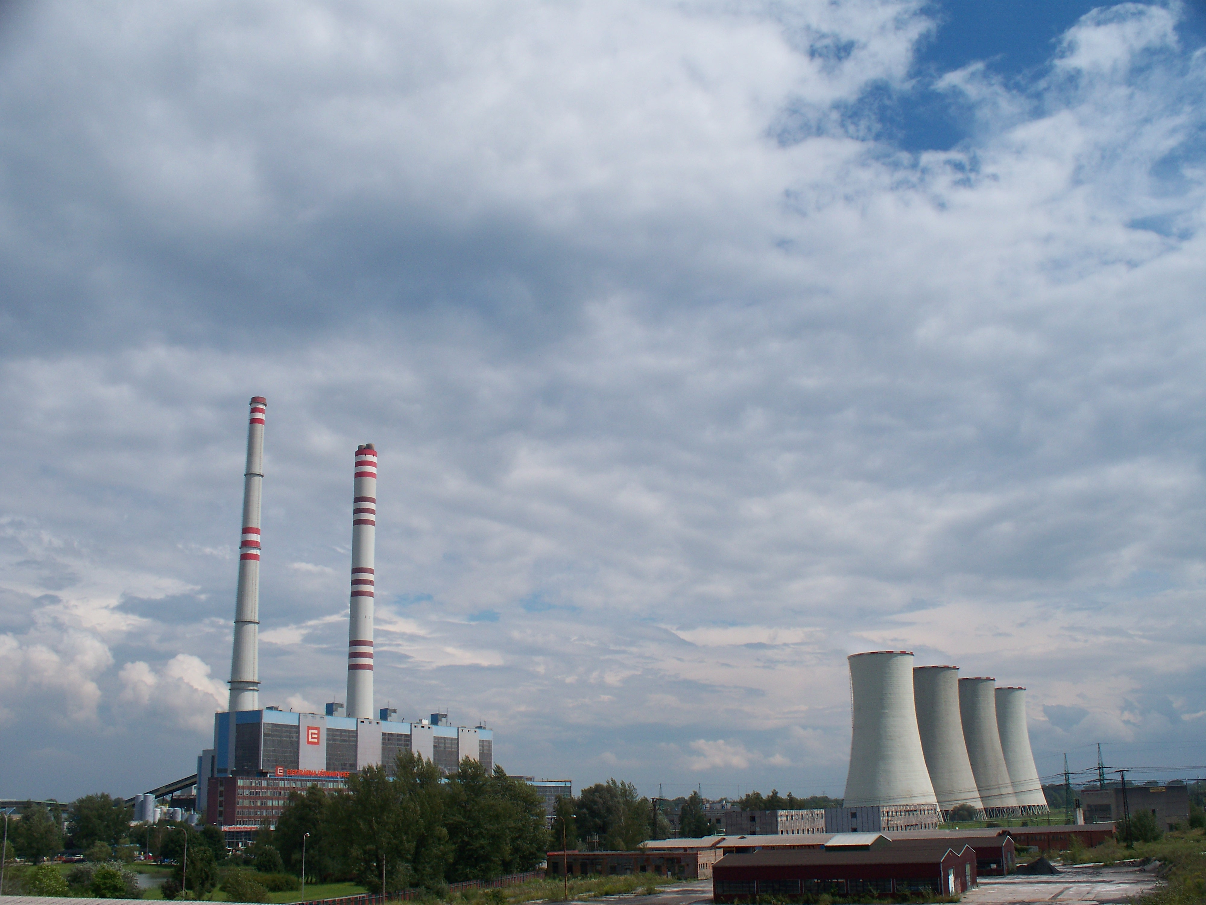 Power Station in Dětmarovice, Czech Republic.